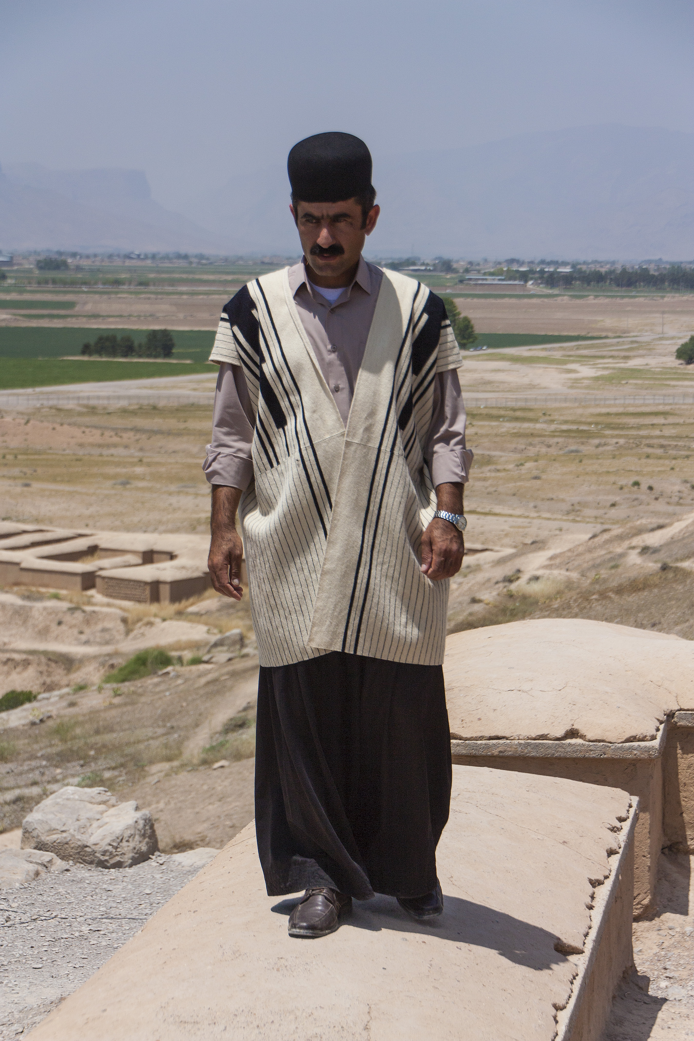 A Bakhtiari man